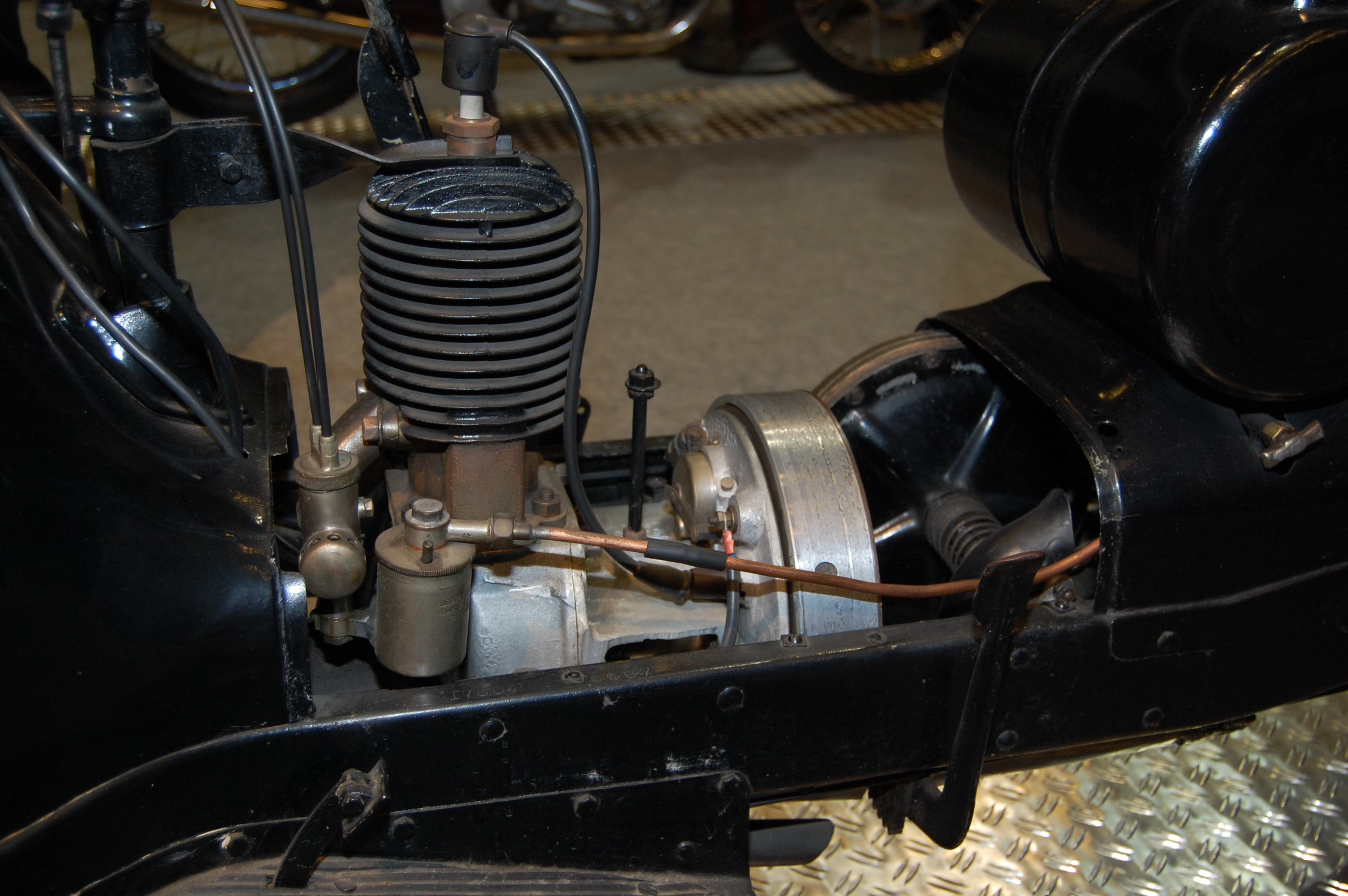 Engine and transmission of a 1923 Ner-A-Car motorcycle at Stadtkreis Bremen in Bremen, Germany